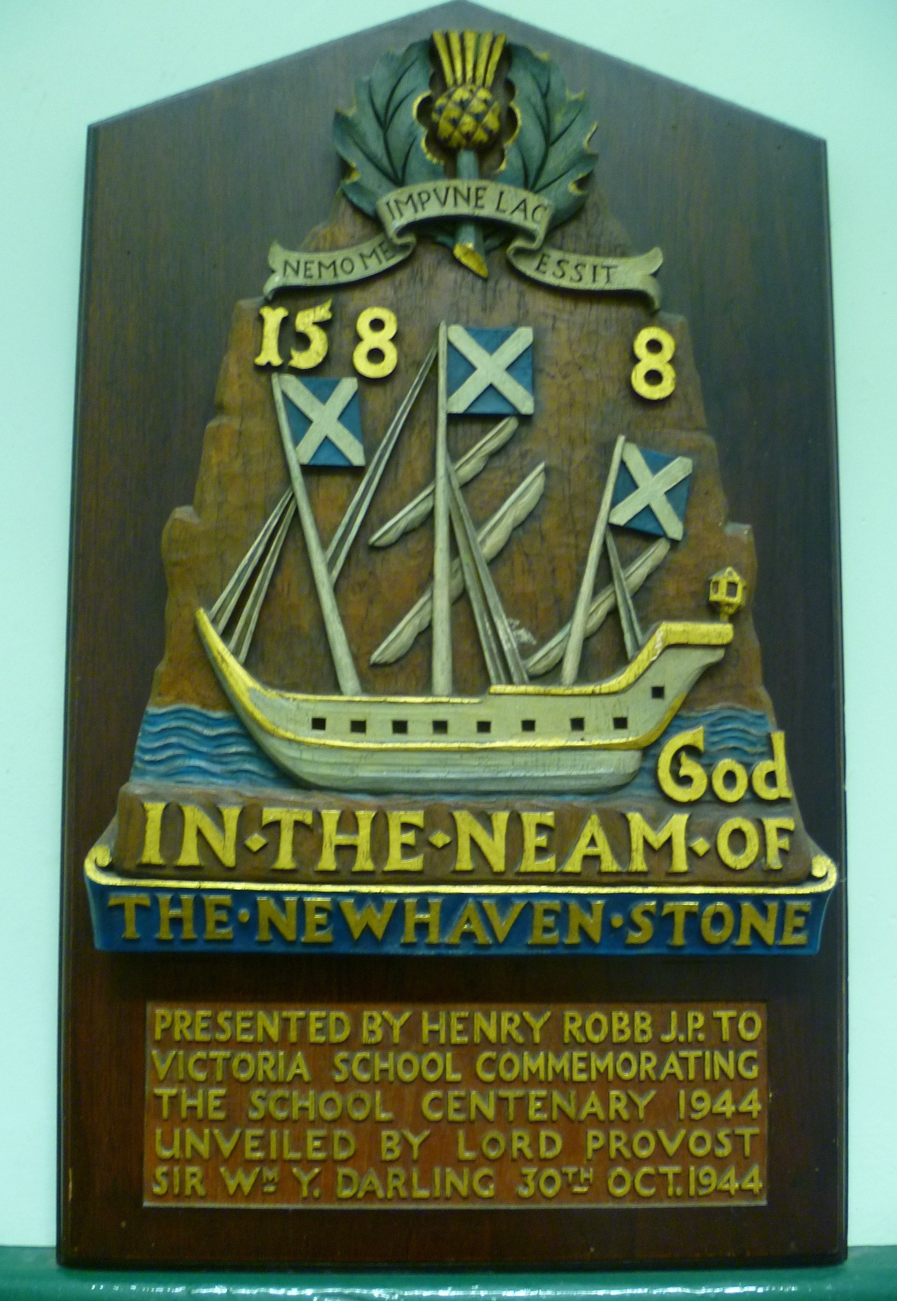 Plaque based on the Newhaven Stone, presented by Henry Robb J.P. to the Victoria Primary School on its centenary in 1944. Although 1588 happens to be the year of the Spanish Armada, it is more likely to be the date of the building into which the stone tablet copied here was originally incorporated.